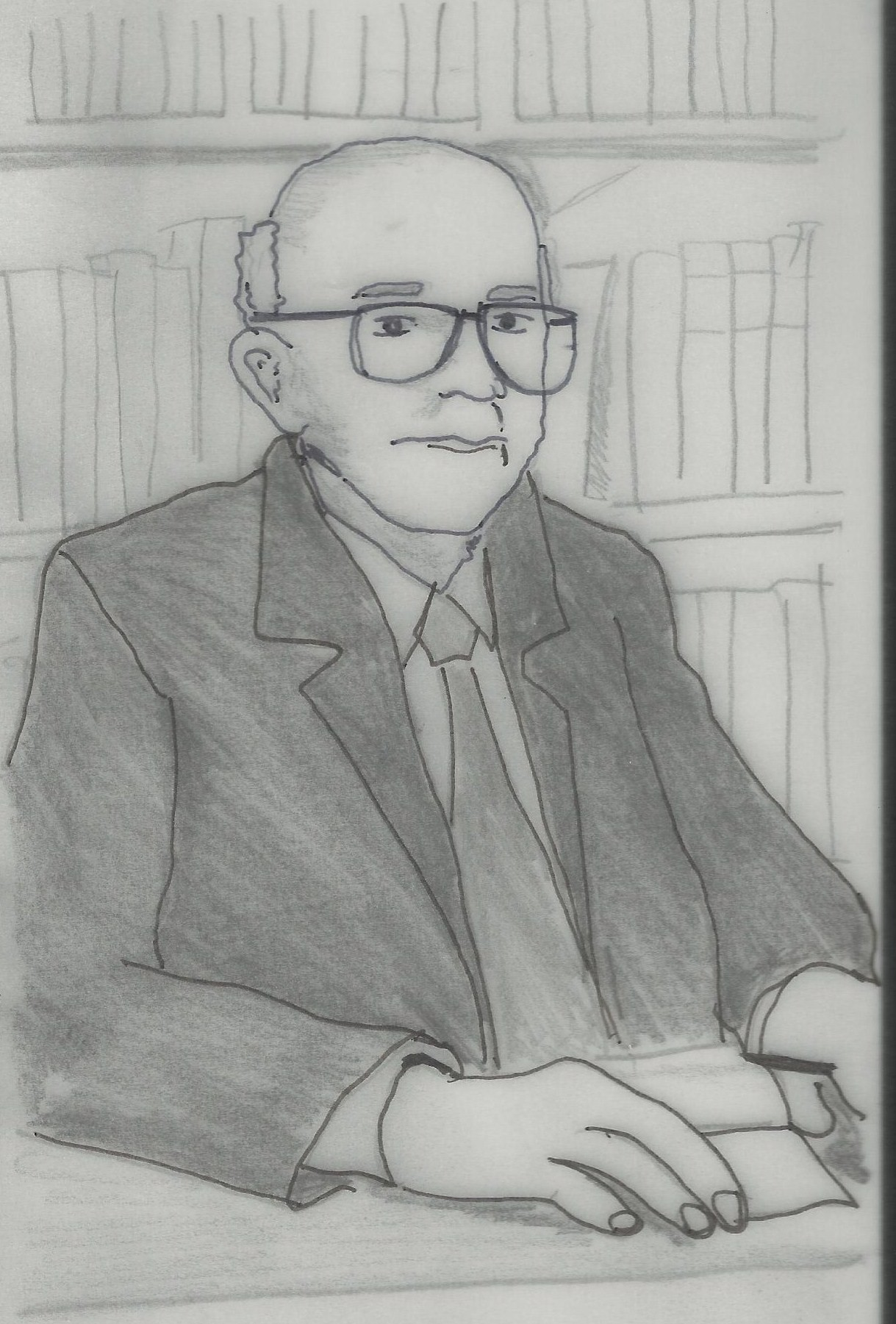 Drawings of Campbell Scott